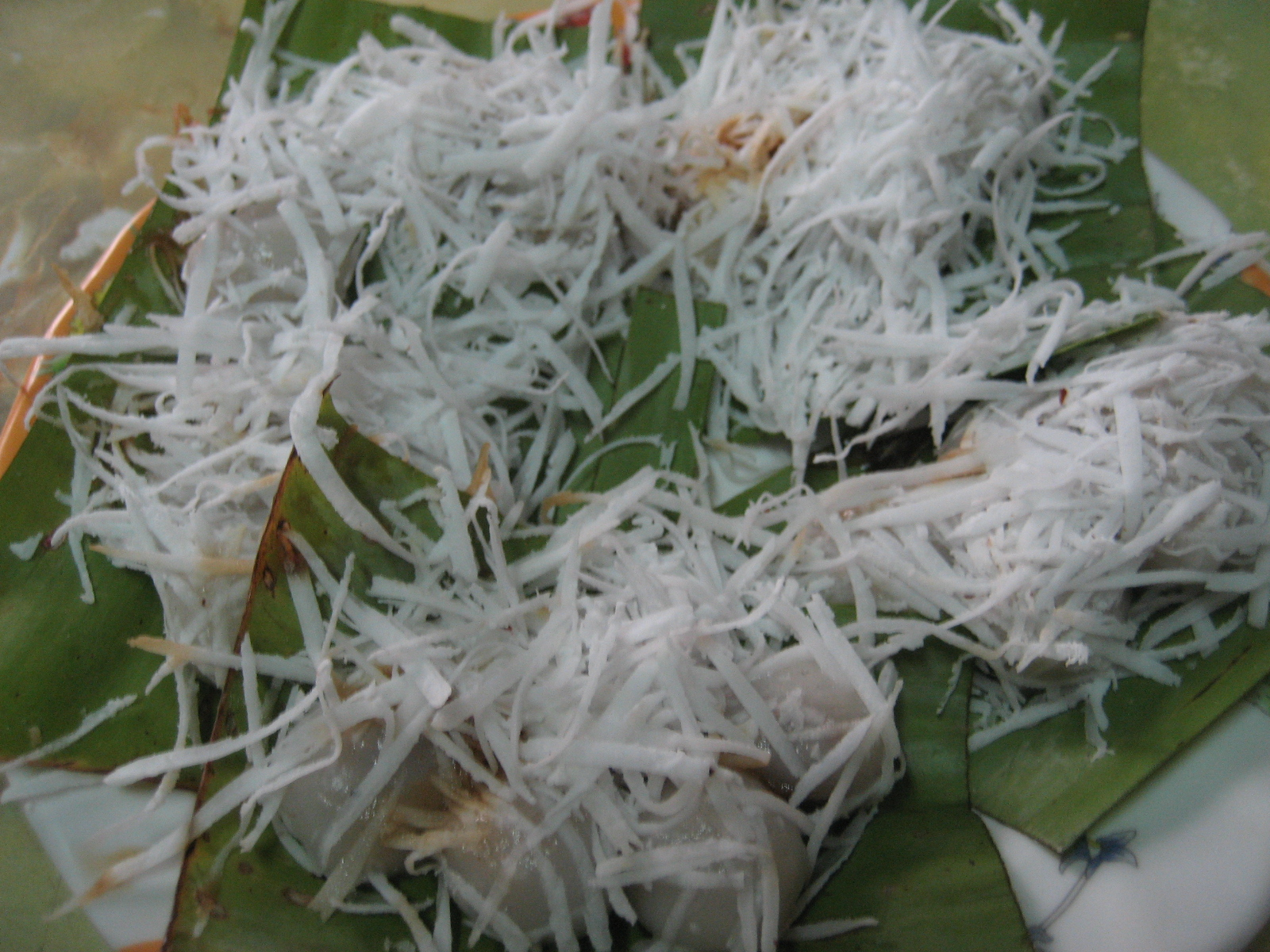 Boiled glutinous rice balls with jaggery inside and covered with shredded coconut; Mandalay, Myanmar.